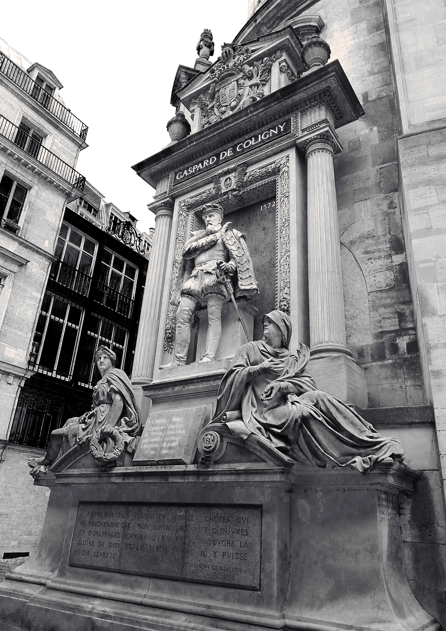 Gustave Crauck, Monument to Gaspard de Coligny, 1889, marble. Chevet of the Oratoire Temple, 160 rue de Rivoli, Paris. Note: the inscription is mistaken, Coligny was born in 1519, not 1517.